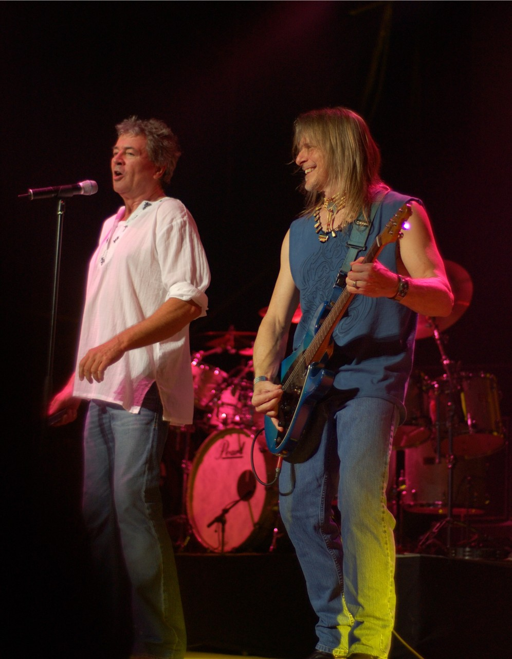 Steve Morse and Deep Purple in a live performance at the Palaraschi (Parma, Italy)